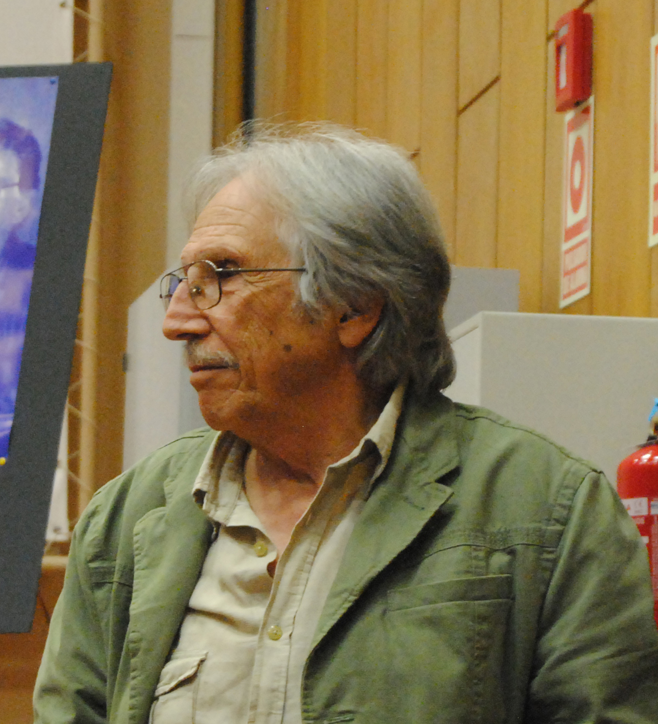 Mario Brenta during a visit to Seminci 2014, in Valladolid.